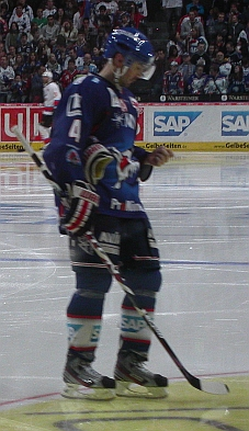 Chris Lee, ice hockey player, defender